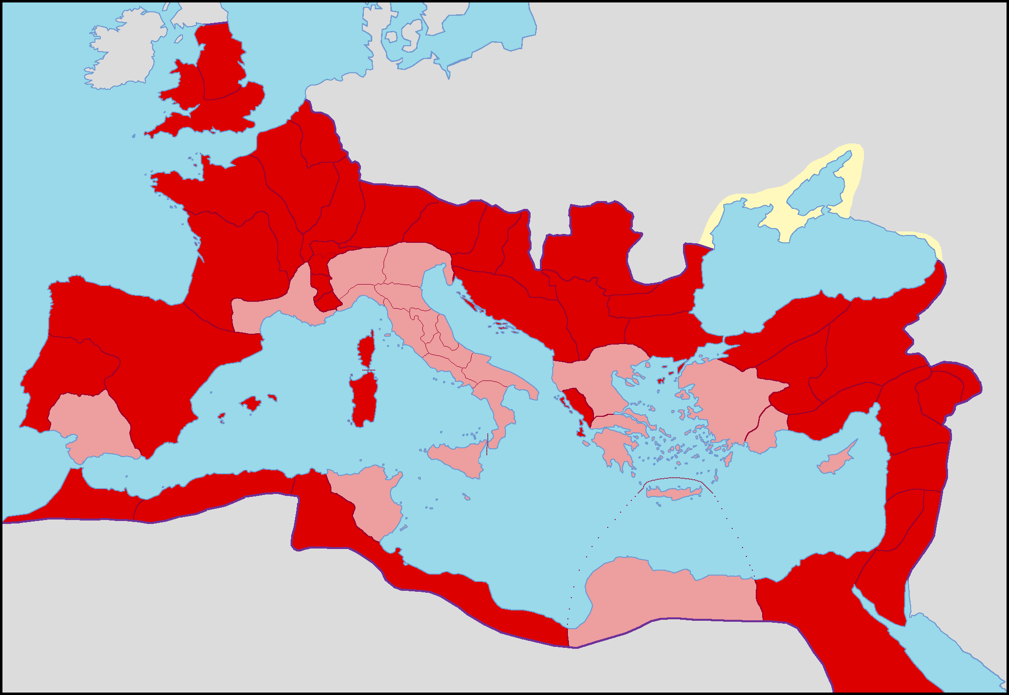 Map of the Roman Empire with differents colours for senatorial (pink) and imperial (red) provinces in 210 AD